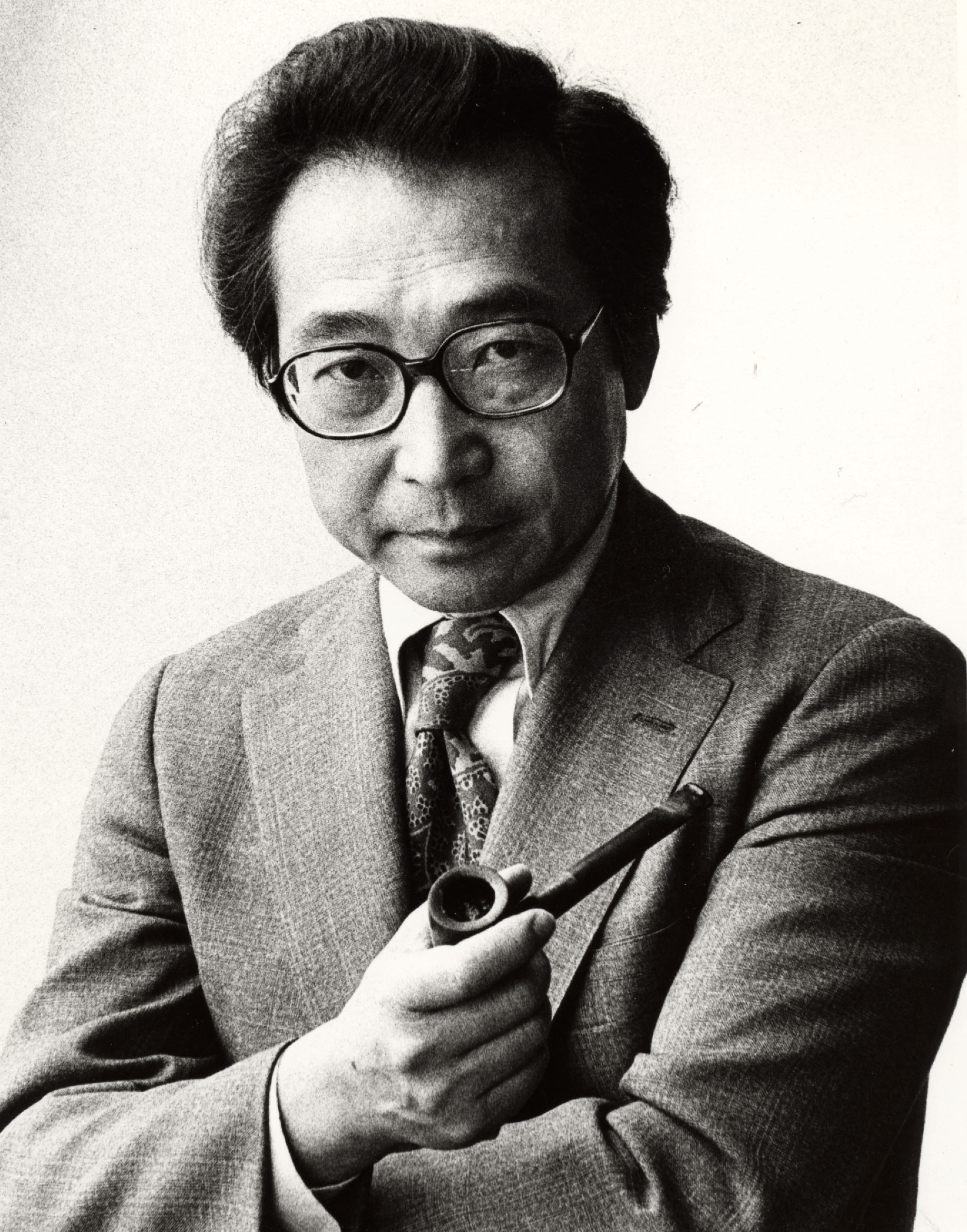 Chou Wen-chung, Chinese American composer of contemporary. classical music, San Francisco, California, June 1978